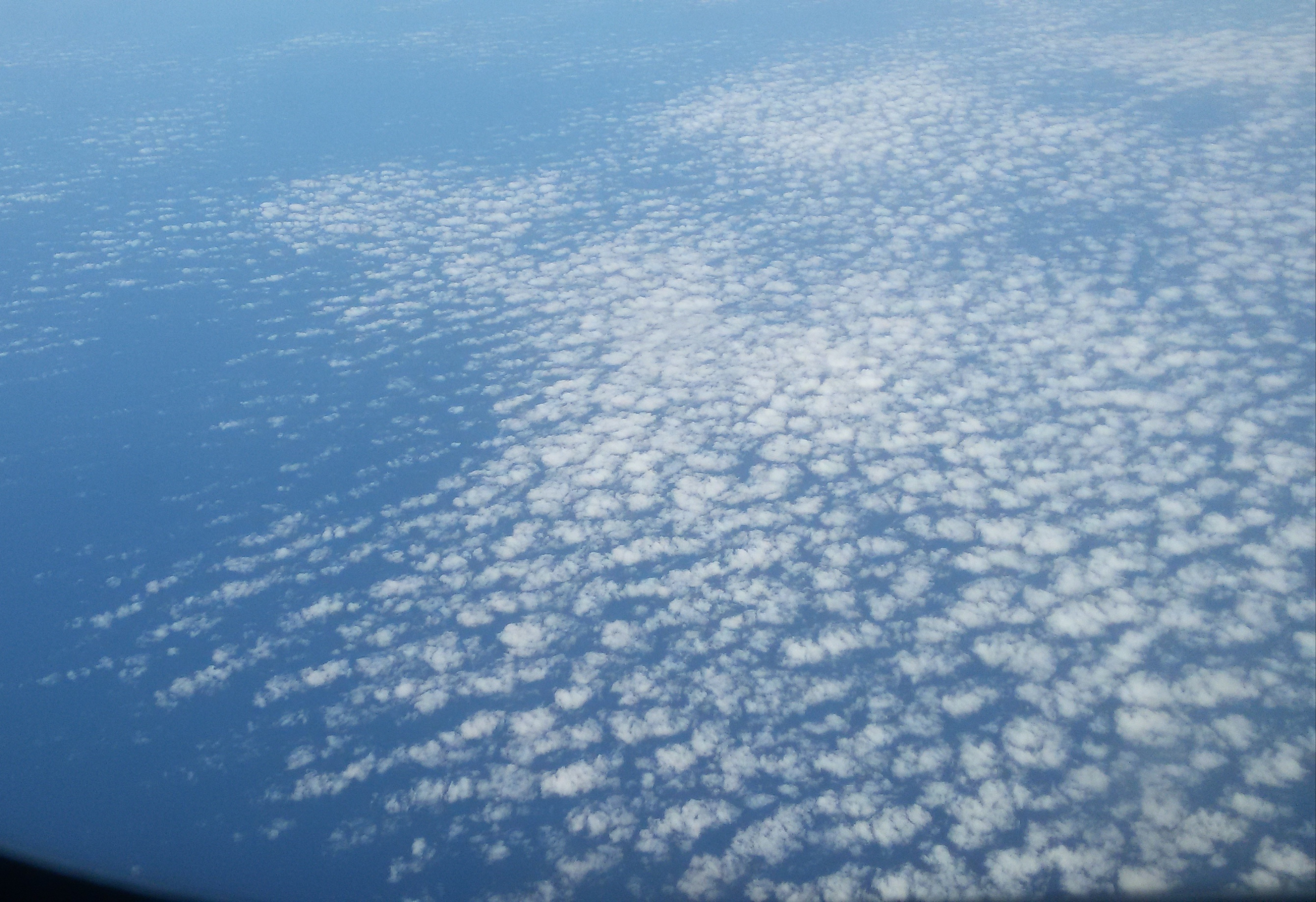 Cirrocumulus cloud in particular: cirrocumulus floccus, picture taken by a flight over Sicily.